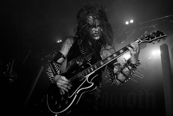 Infernus, live at Hole In The Sky 2009